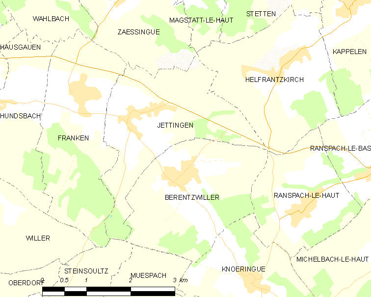 Map of French municipality